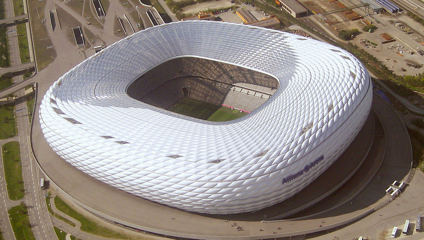 Allianz Arena in Munich, Germany, with Fröttmaning station in the background